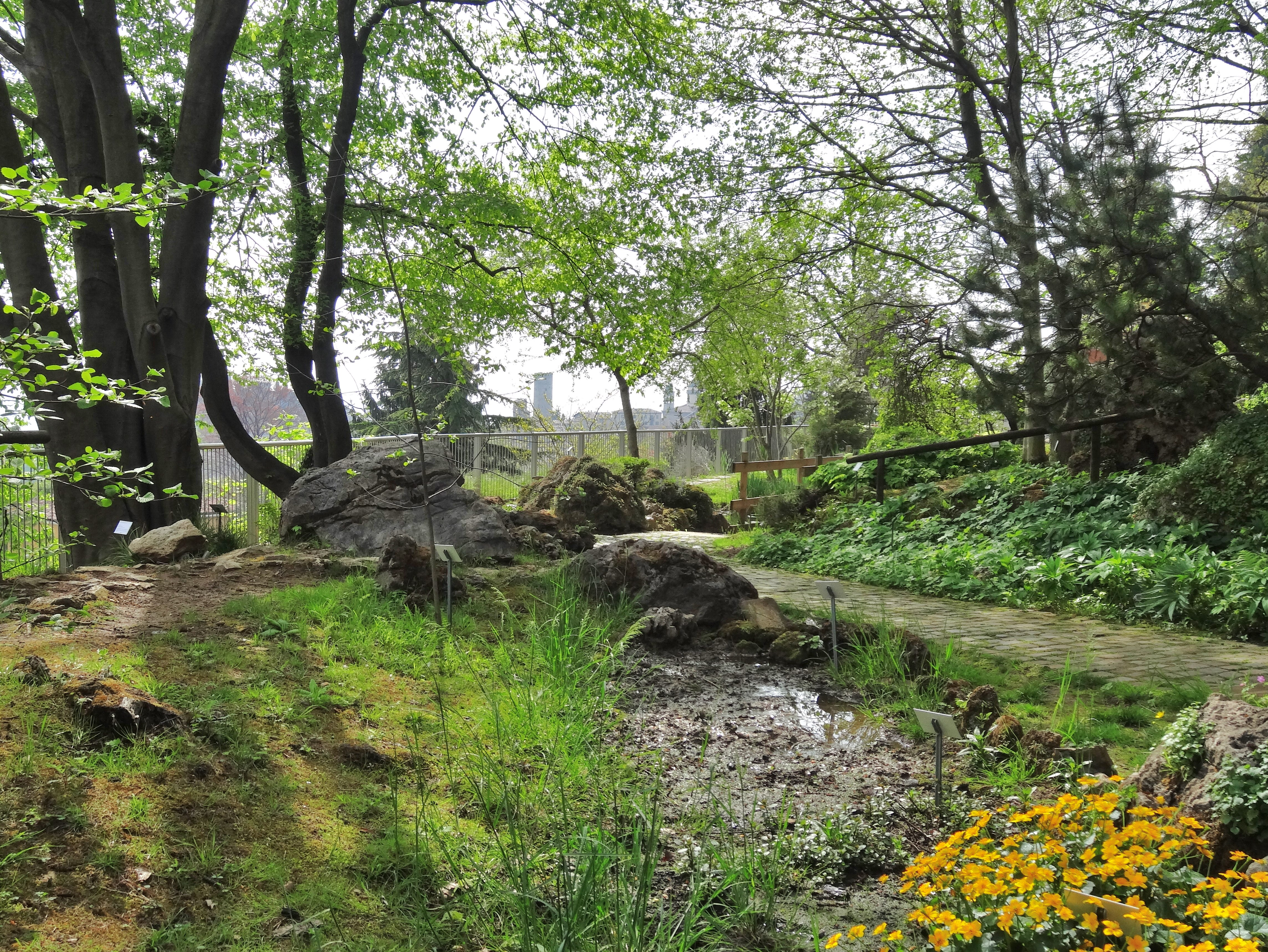 Botanical Garden of Bergamo